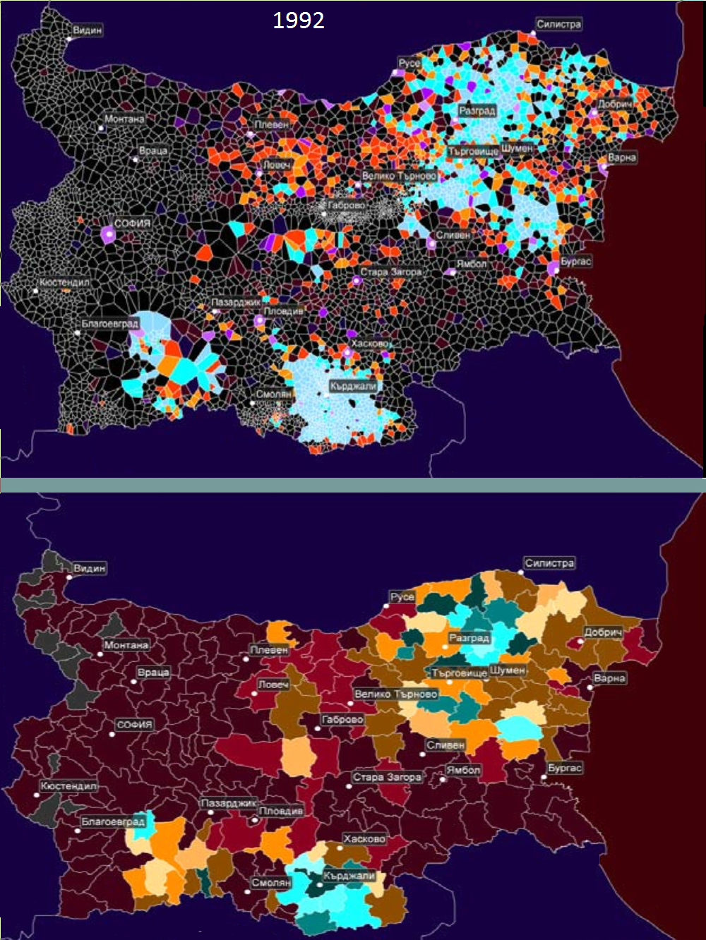 Distribution of the ethnic Turks in Bulgaria according to the 1992 census. Their frequency descends from blue color, to orange/red and purple and from their lighter to darker shades. With the political changes a new method was introduced, people could declare any ethnic identity regardless of their ancestry.